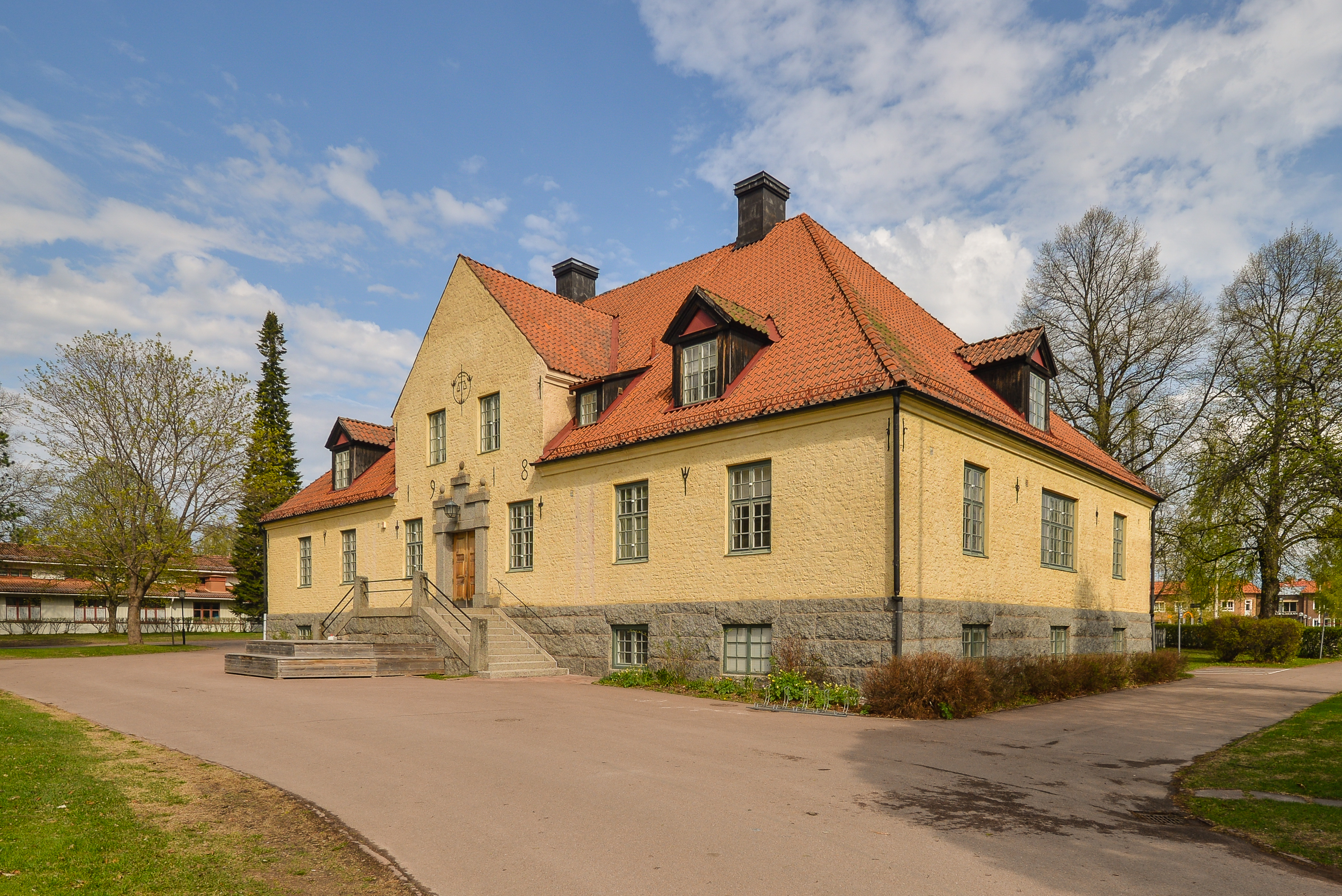 Former courthouse (Leksand tingsrätt) in Leksand, Sweden.